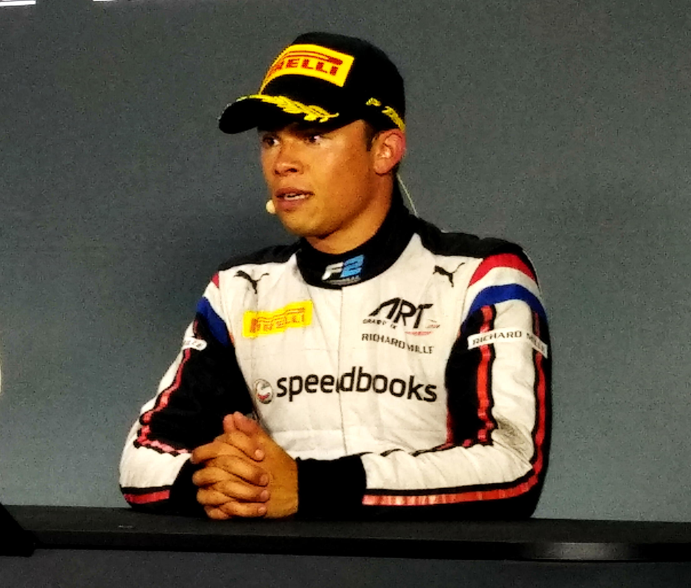 De Vries in press conference, Formula 2 Championship, Monza, 2019